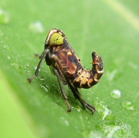 Leafhopper nymph, Jikradia olitoria. Churchville Nature Center, Bucks County, Pennsylvania, USA.